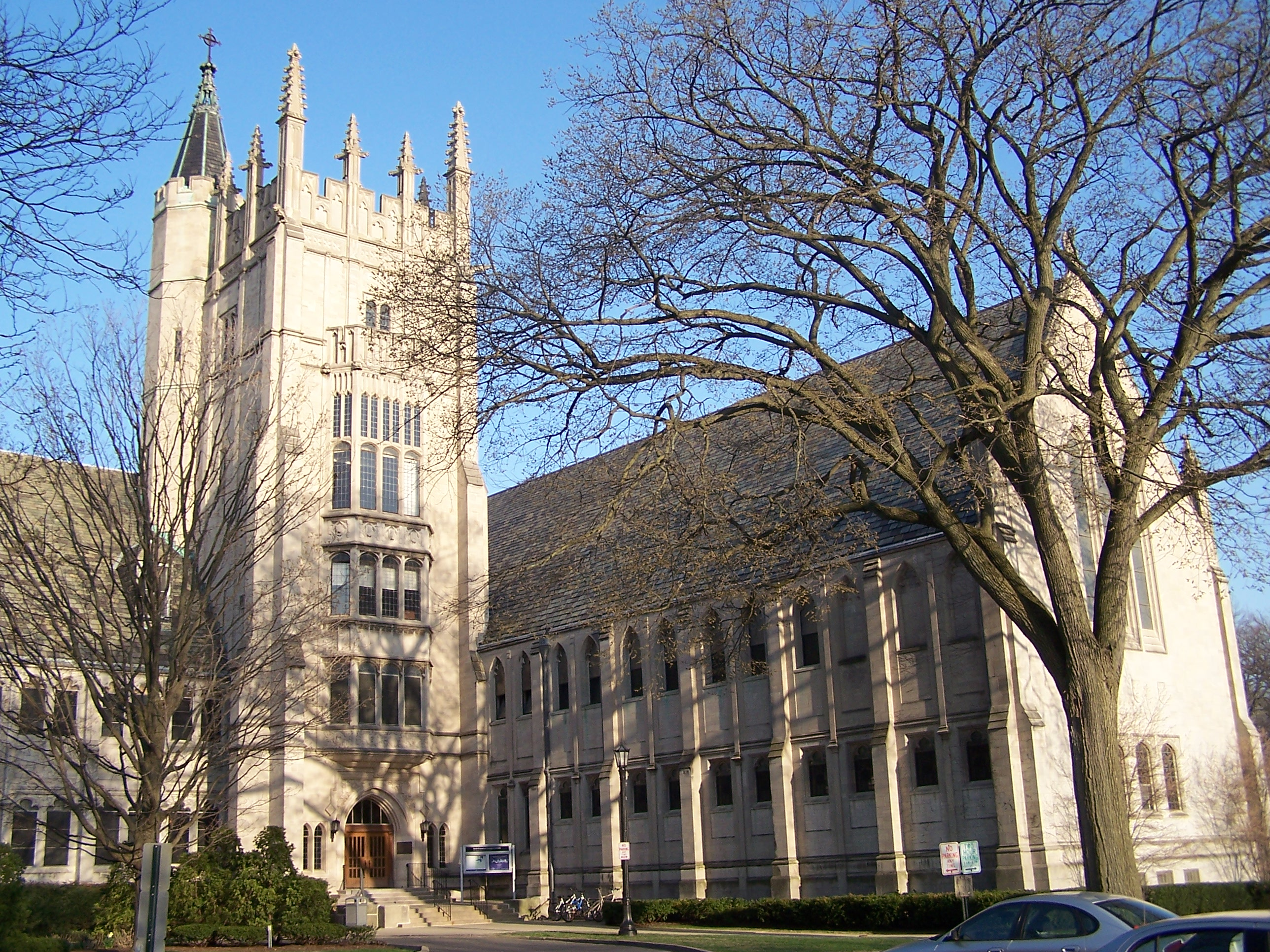 Garrett-Evangelical Theological Seminary at Northwestern University.